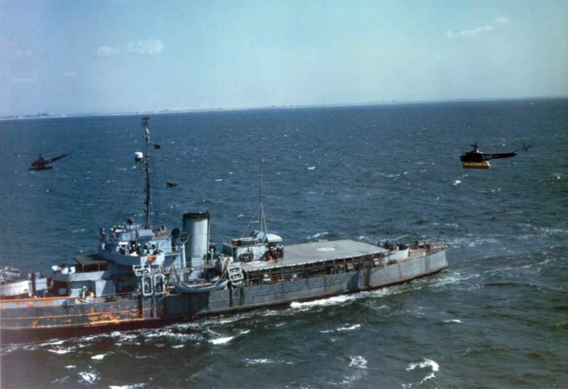 A U.S. Coast Guard Sikorsky HNS-1 helicopter (right) and a Sikorsky HOS-1 (left) conducting experimental flight operations on USCGC Cobb (WPG-181), 15 June 1944.